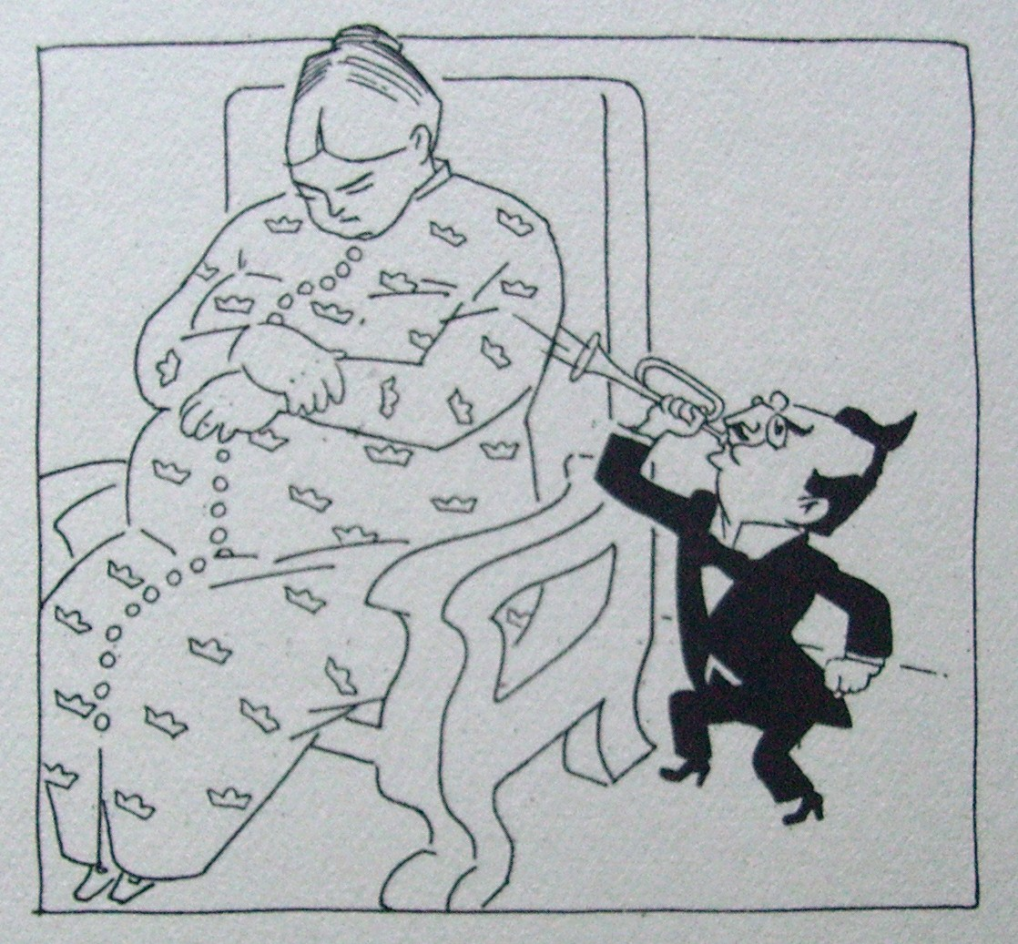 Picture of Sven Hedin with a trumpeth